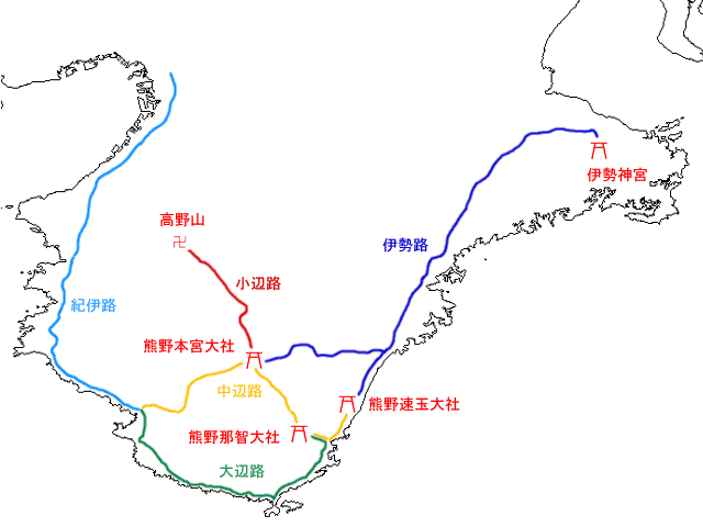 Map of the old roads of Kumano, medieval pilgrimage routes. Red icons are shrines and temples that the roads begin and terminate at.